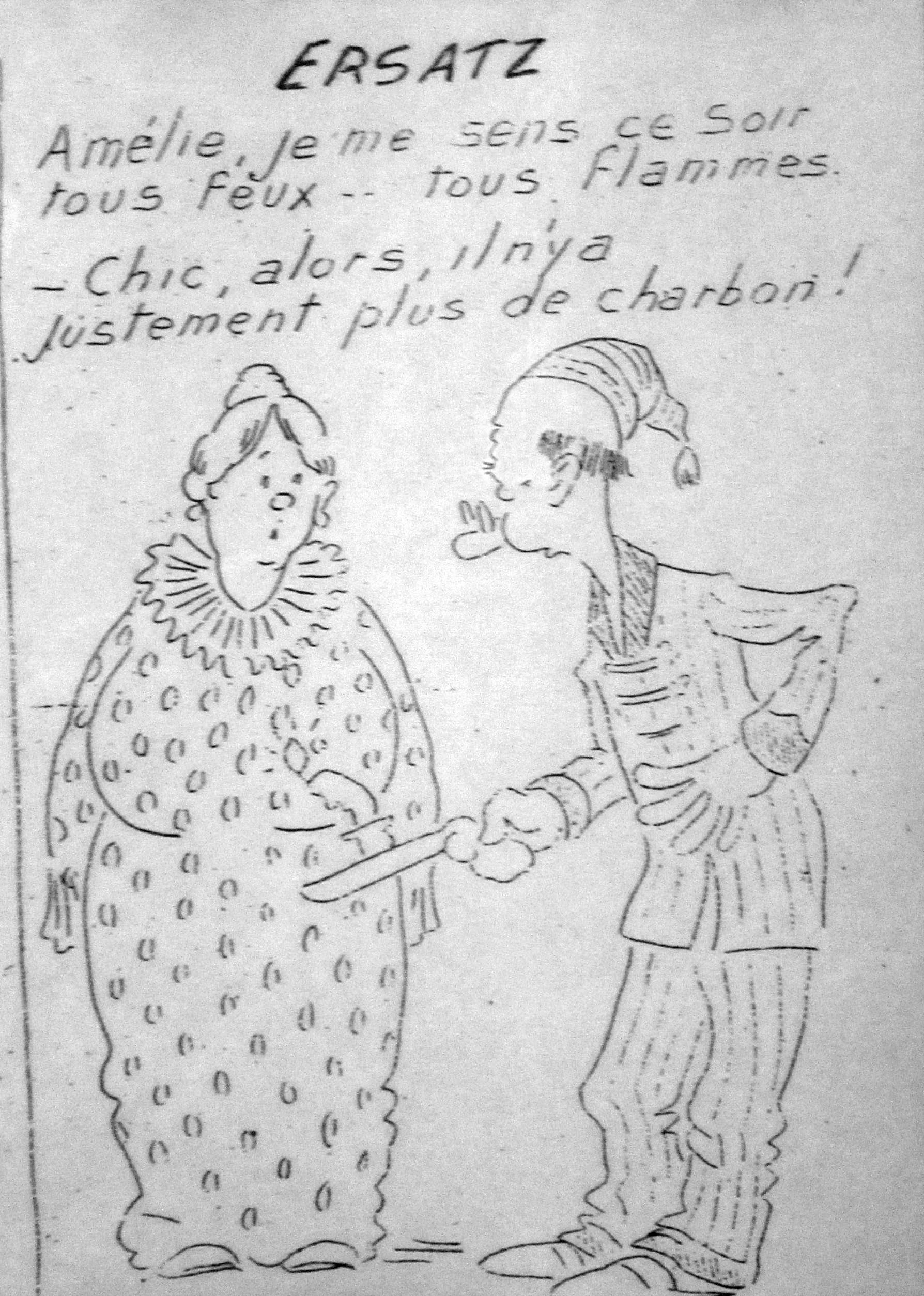 Contemporary cartoon by an anonymous member of the resistance, depicting the fuel shortages. The caption reads: Man: "Amelie, I feel on fire tonight...inflamed with passion" Woman: "Great, because there isn't any more coal" In the National Museum of the Resistance